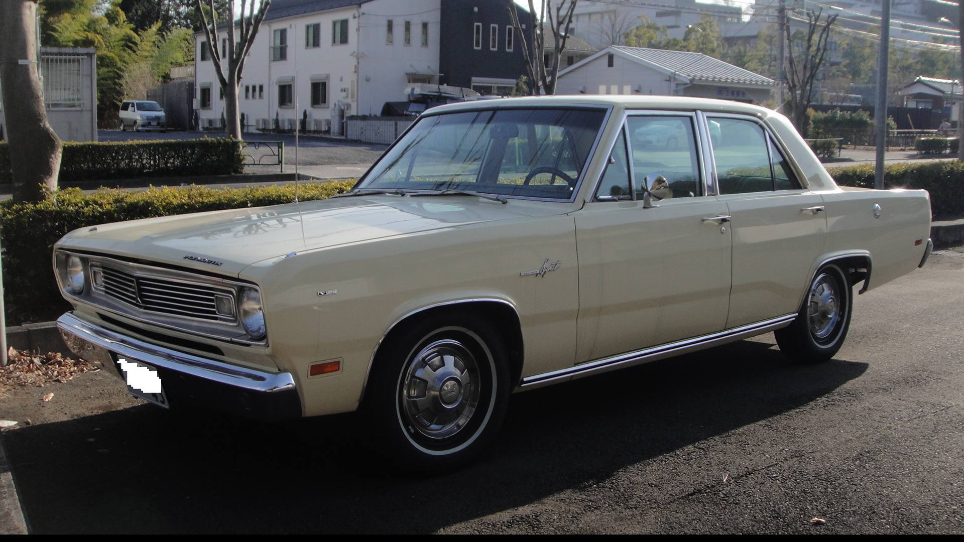 1969 Plymouth Valiant Signet four-door sedan, in Japan.